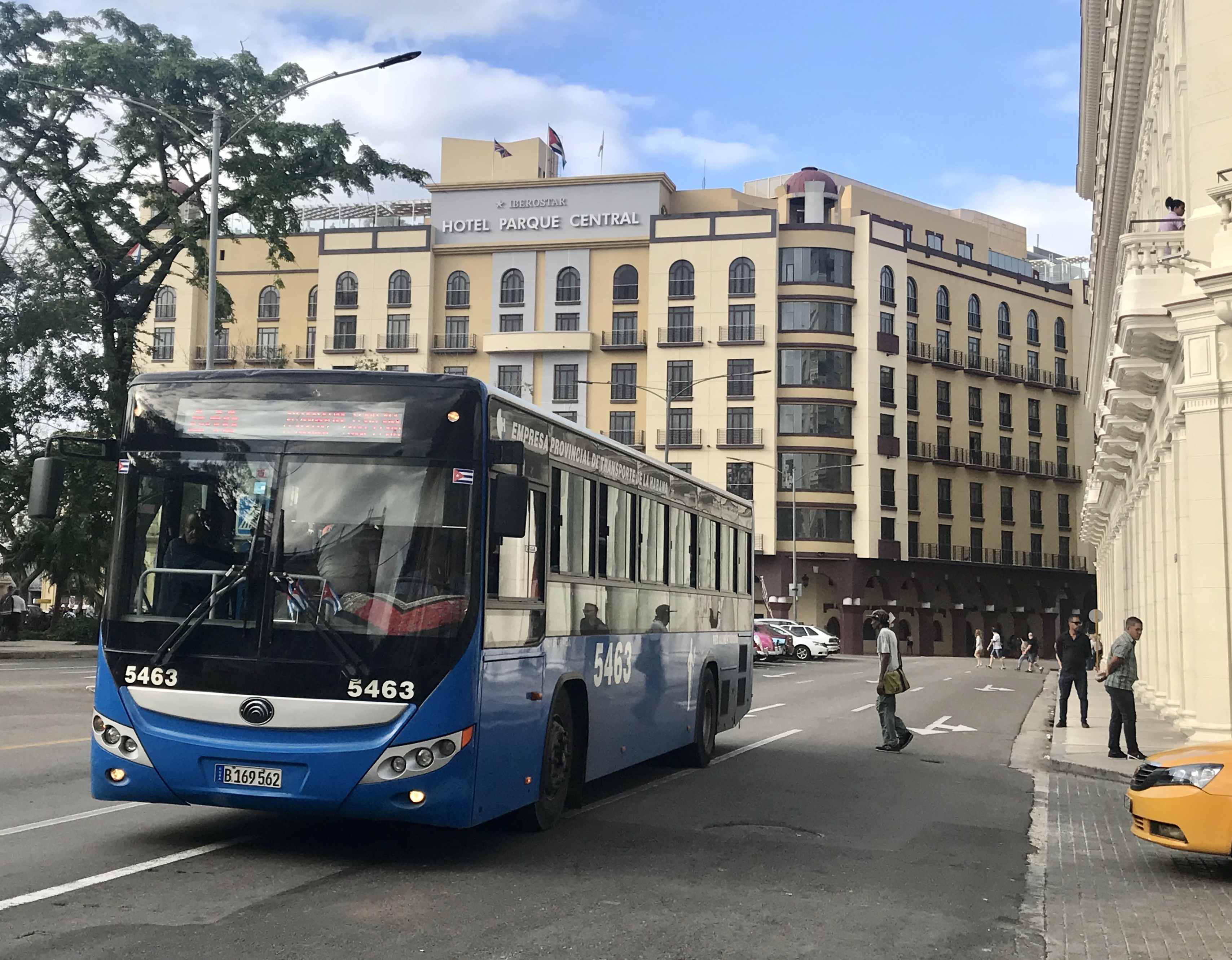 Ruta A40 de la Red Alimentadora, Empresa Provincial de Transporte de La Habana